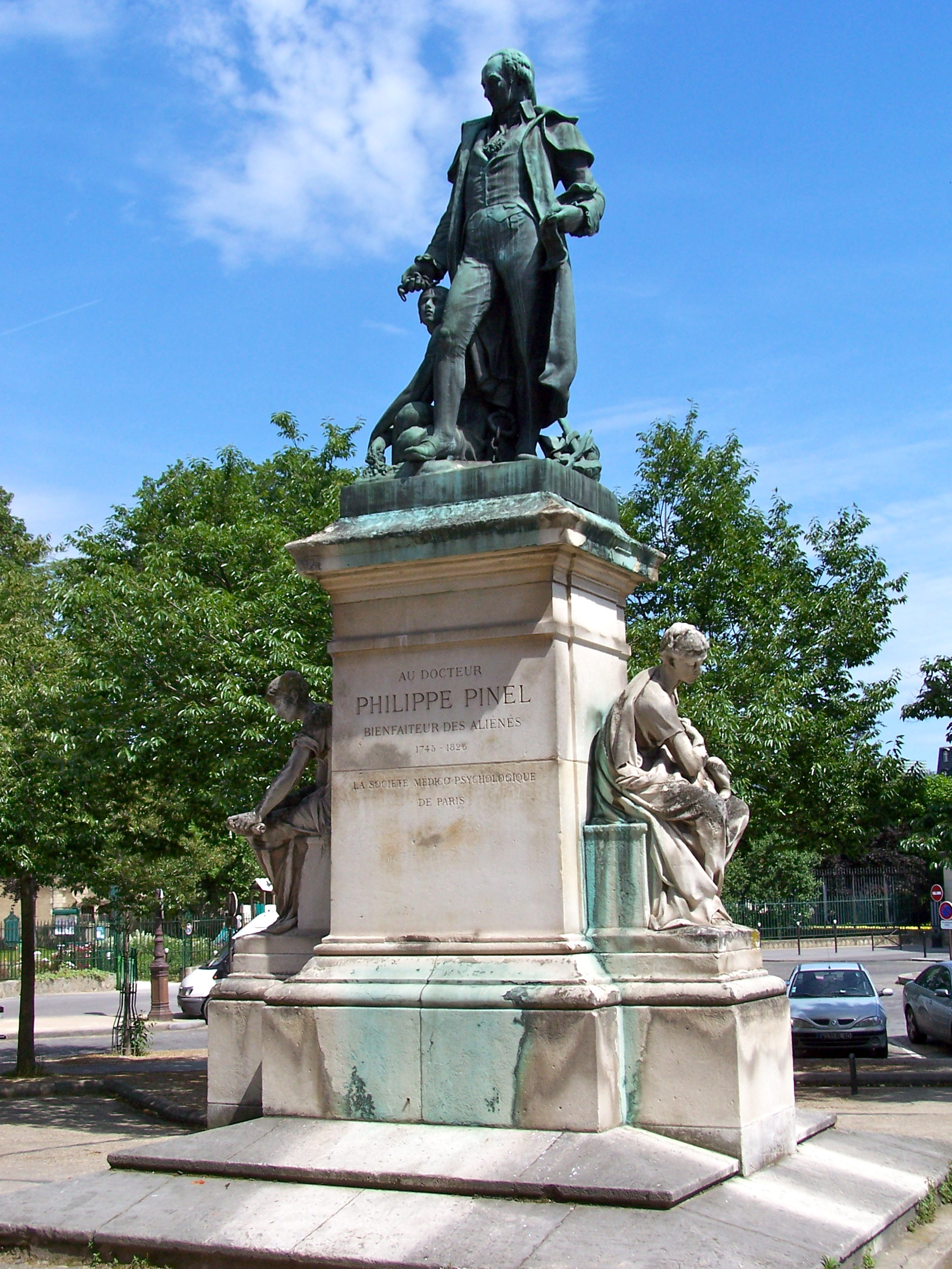 Statue of Philippe Pinel at boulevard de l'Hôpital in Paris